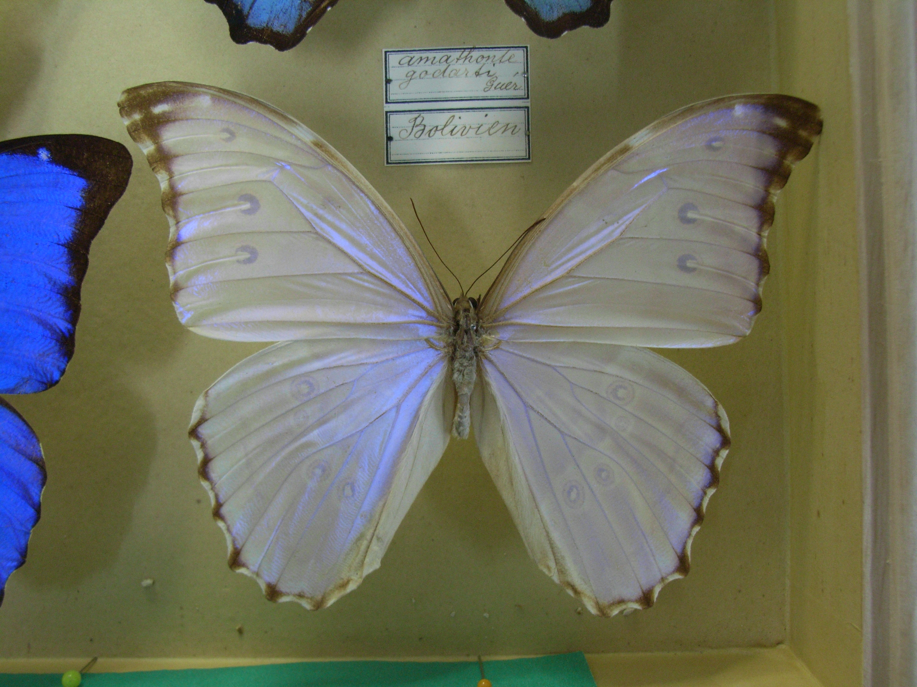 Morpho godarti Ex Coll Museum Wiesbaden